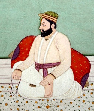 A derivative work of File:Guru Har Gobind.jpg